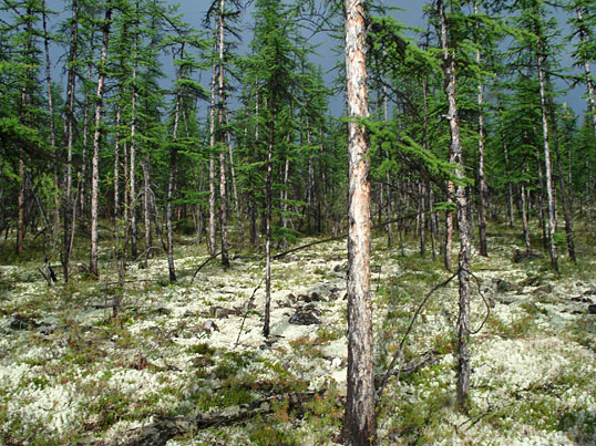 Larix gmelinii forest, Kochechum River, Evenkiyskiy Avtonomnyy Okrug, Russia; approx 66°10'N 99°45'E.